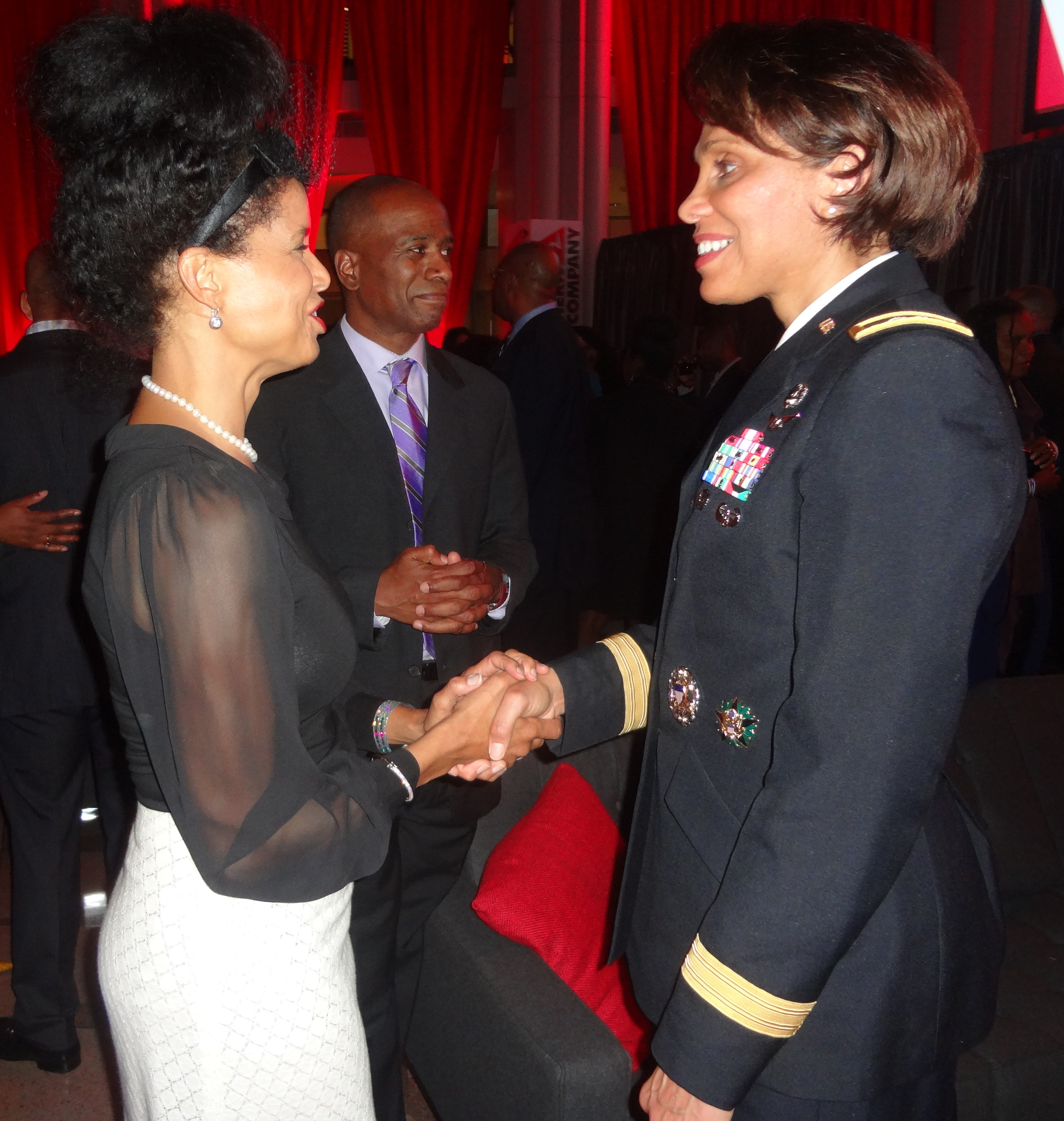 Sept. 2013 Maj. Gen. Nadja West was honored with the Armed Forces Medical Advocate Award from Essence Magazine and Southern Company in Washington, DC. Here, West chats with former Young and the Restless star Victoria Rowell. Photo by: Stephanie P. Abdullah